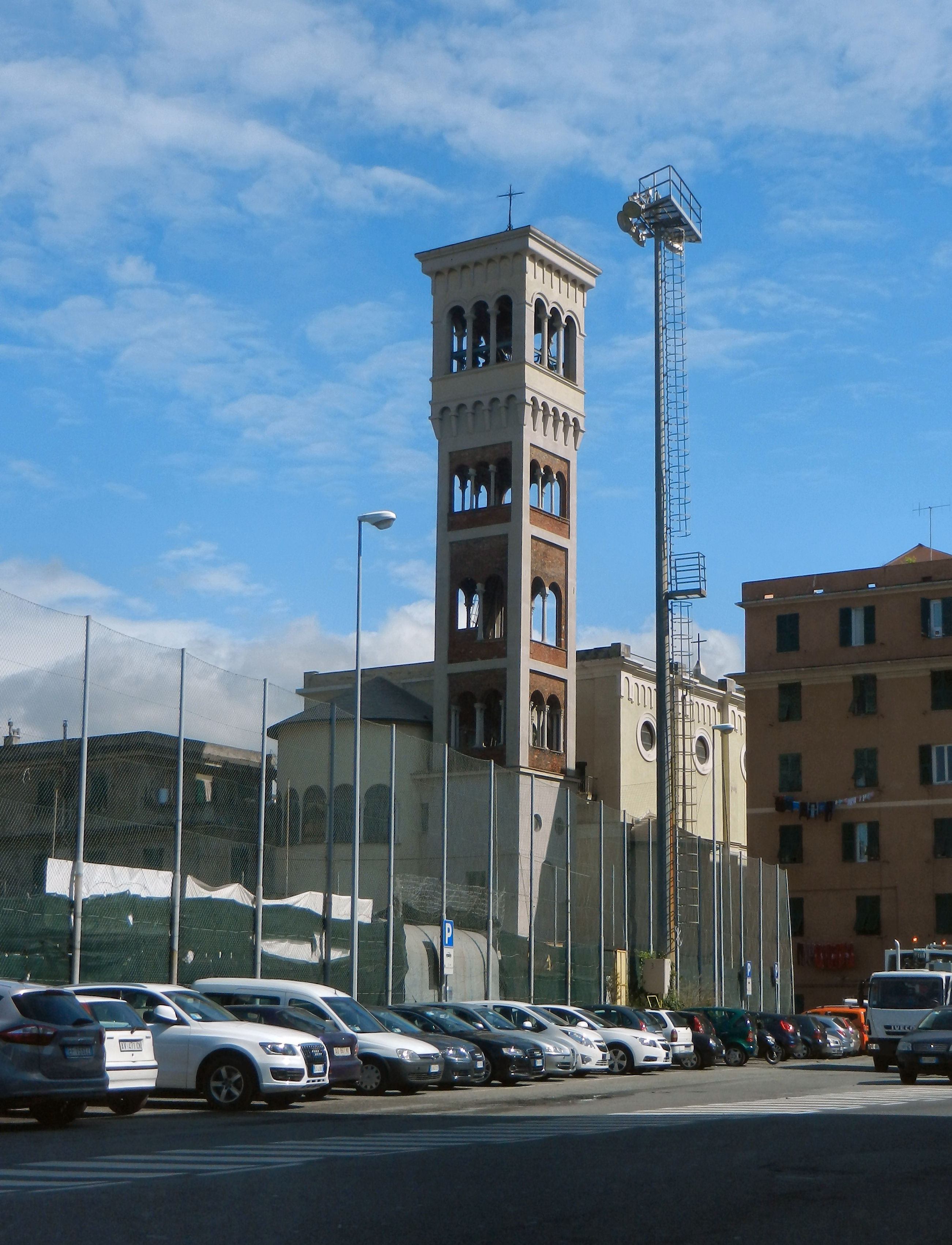 Genoa (Italy), quarter of Campi, the bell tower of the church of Our Lady of Lourdes